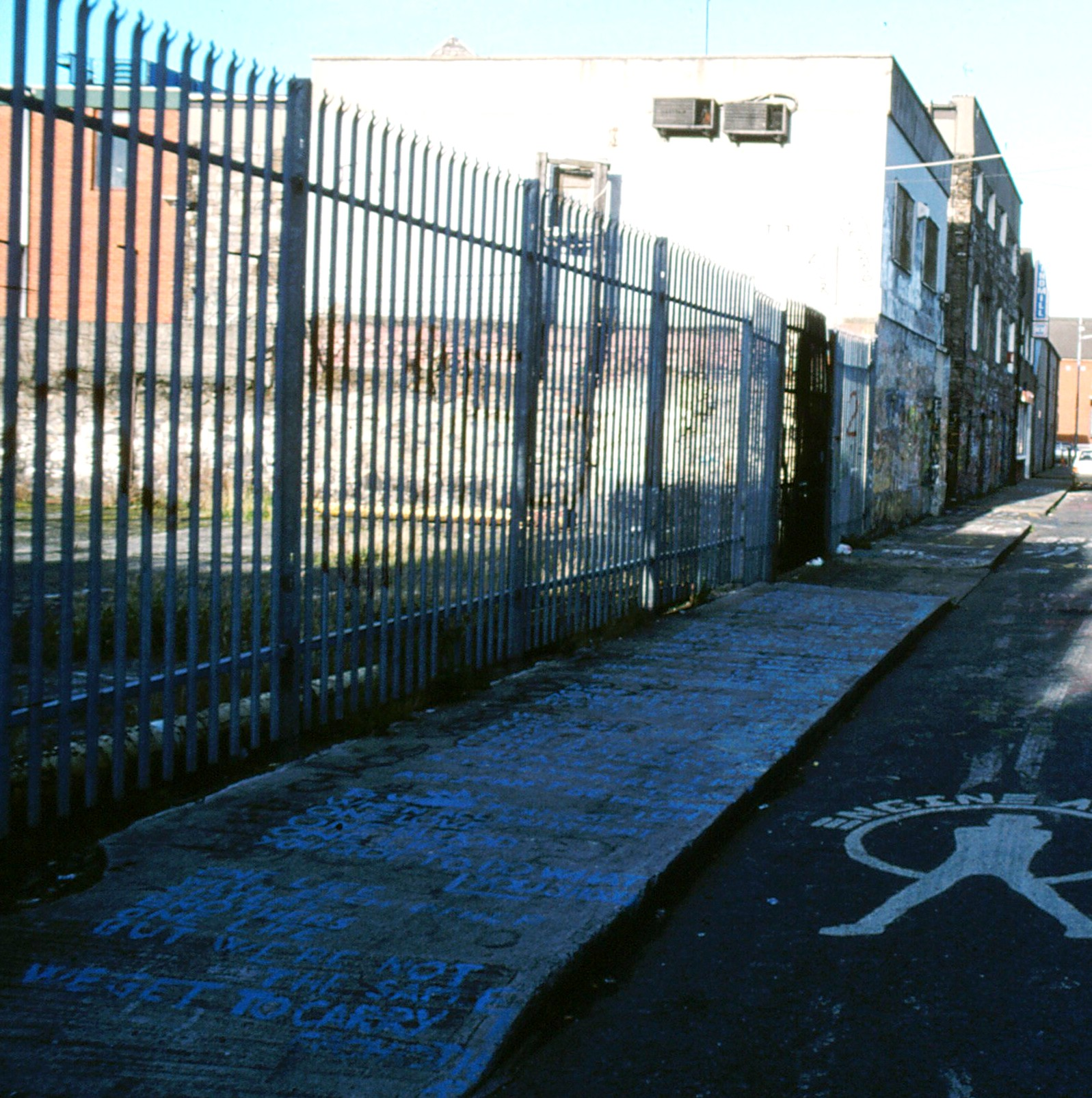 Windmill Lane in Dublin. Windmill Lane Studios are in the background. In the foreground on the sidewalk in blue are the lyrics to U2's song "One".